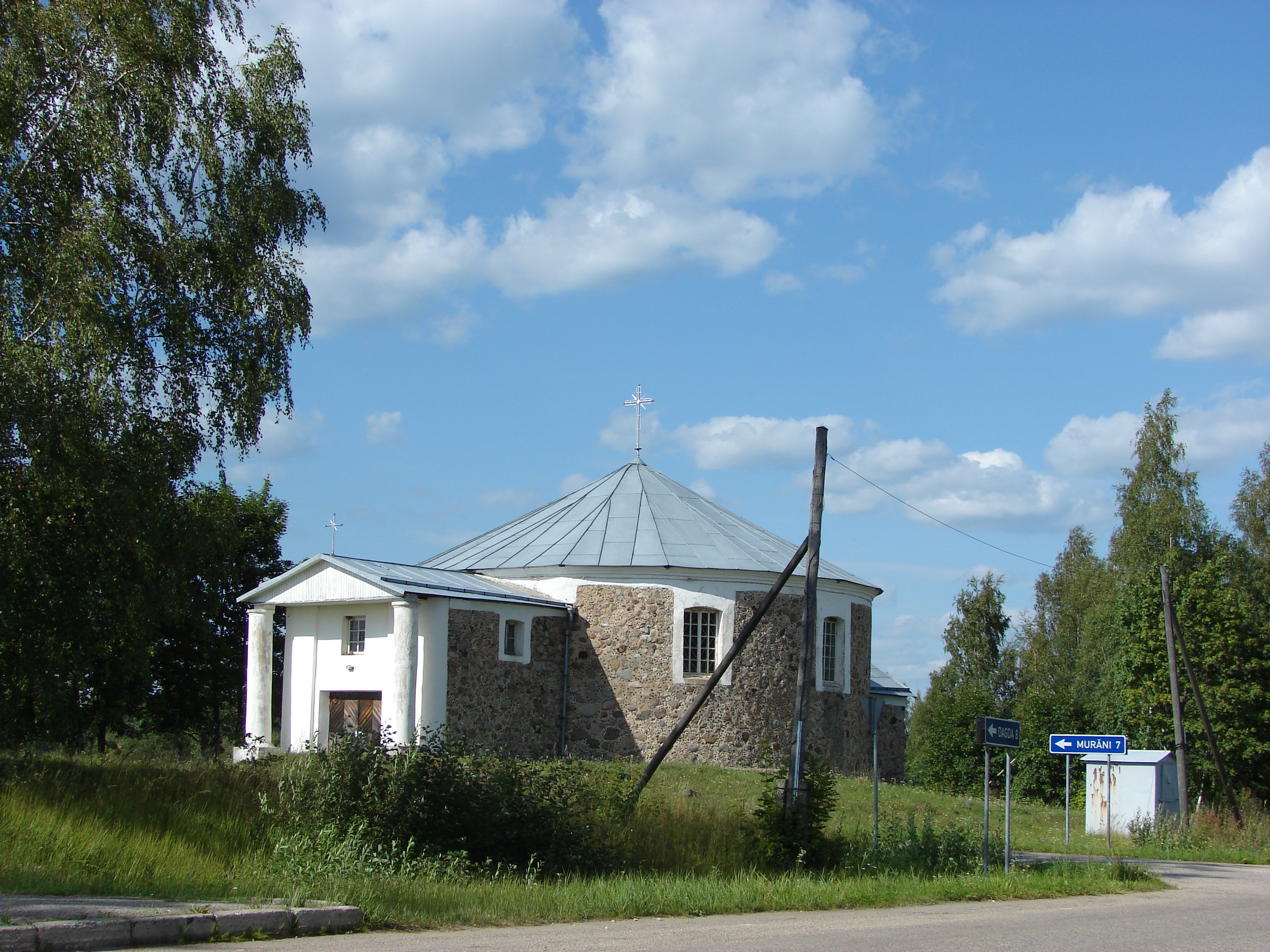 Saint Michael Archangel Roman Catholic Church in Balta, Latvia